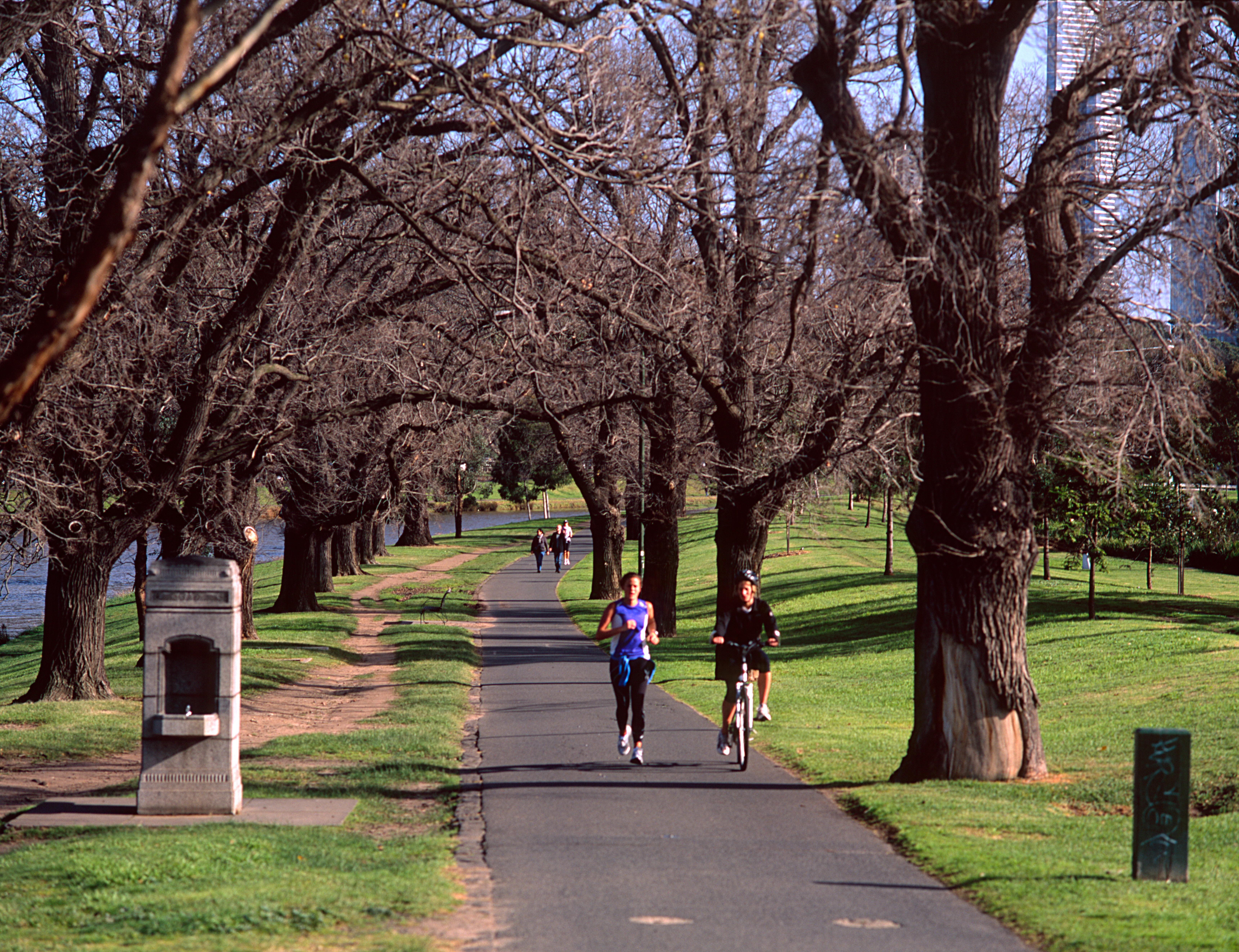 Yarra River paths